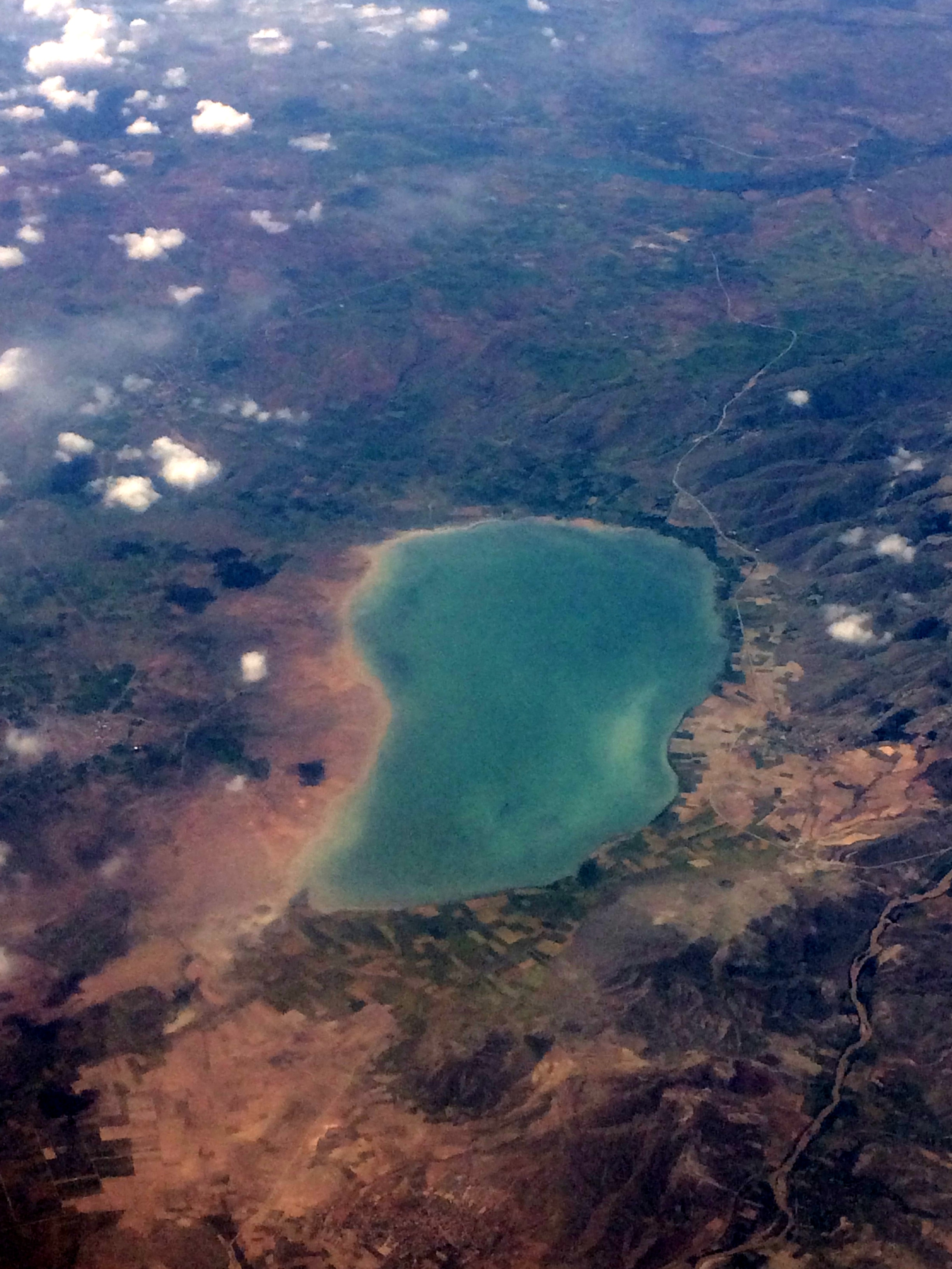 Palas Tuzla lake (turkish Palas Tuzla Gölü) from the airplane from approximately 12000 meters altitude (June 2105, Turkey, Central Anatolia, Kayseri province, Sarıoğlan district)